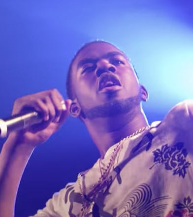 Screenshot from Tion Wayne Headline Show